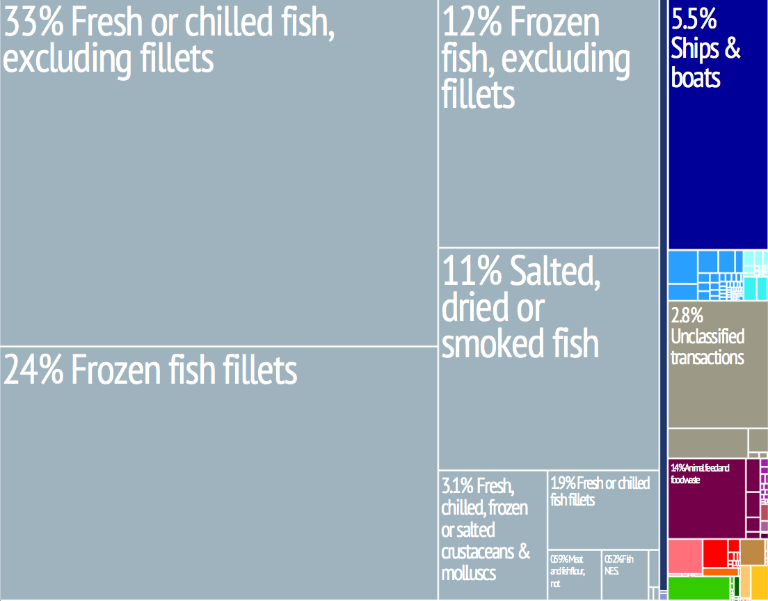 Export Trading Treemap. From MIT/Harvard Atlas of Economic Complexity